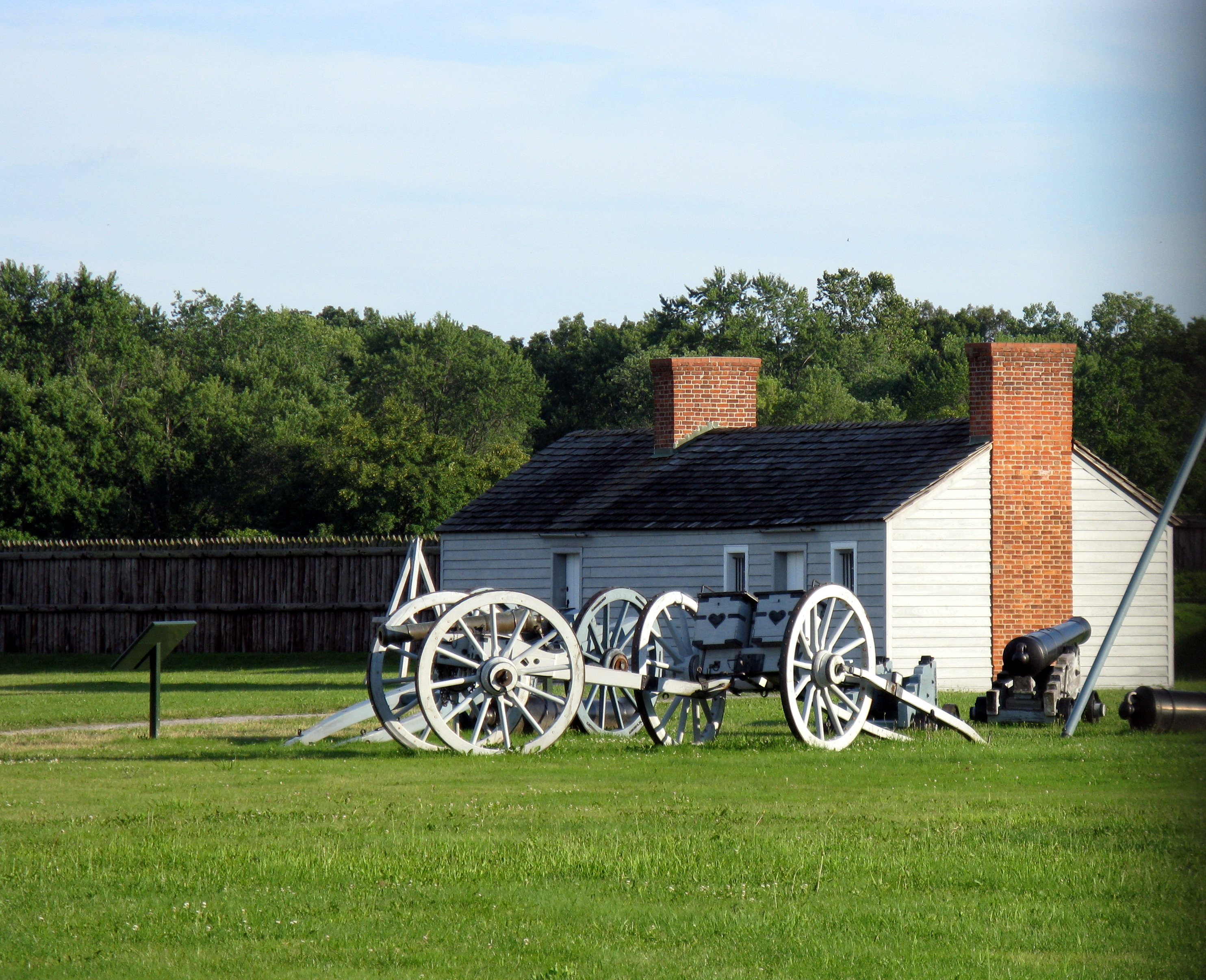 Fort George in Niagara-on-the-Lake, Ontario.